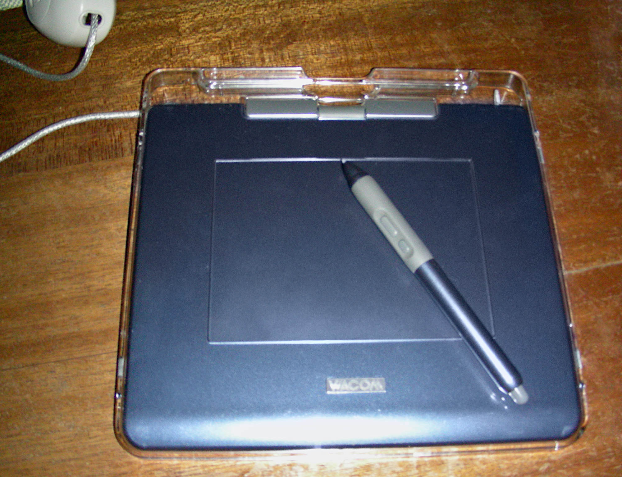 WACOM PenTablet Graphire4